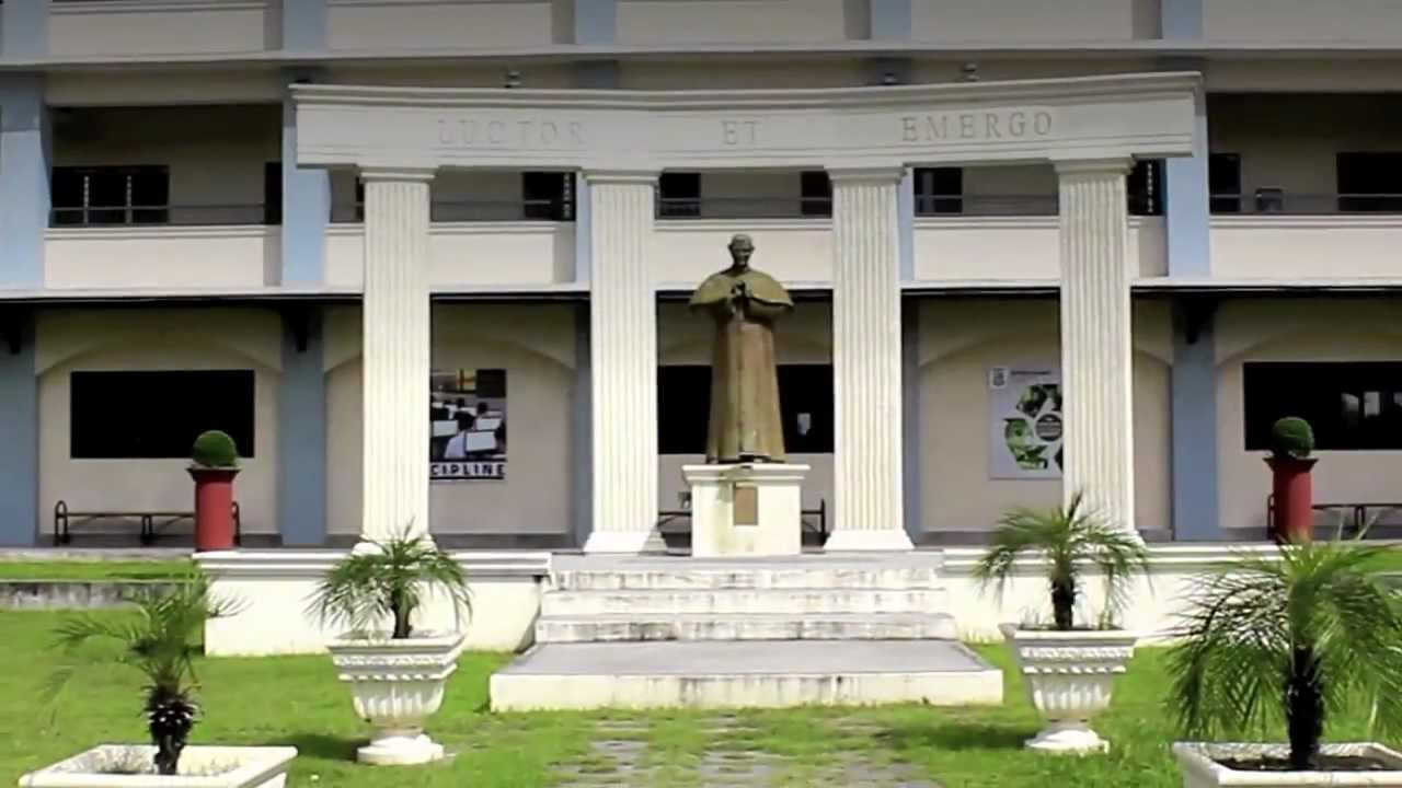 Don Bosco Academy Mini Stage